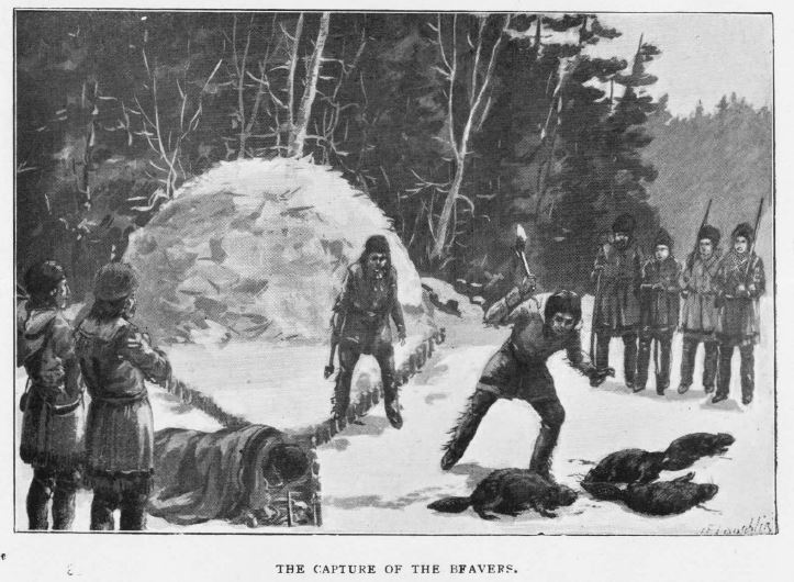 The Capture of the Beaver from Egerton R. Young's Winter Adventures of Three Boys in the Great Lone Land, Charles H. Kelly, London (1899)